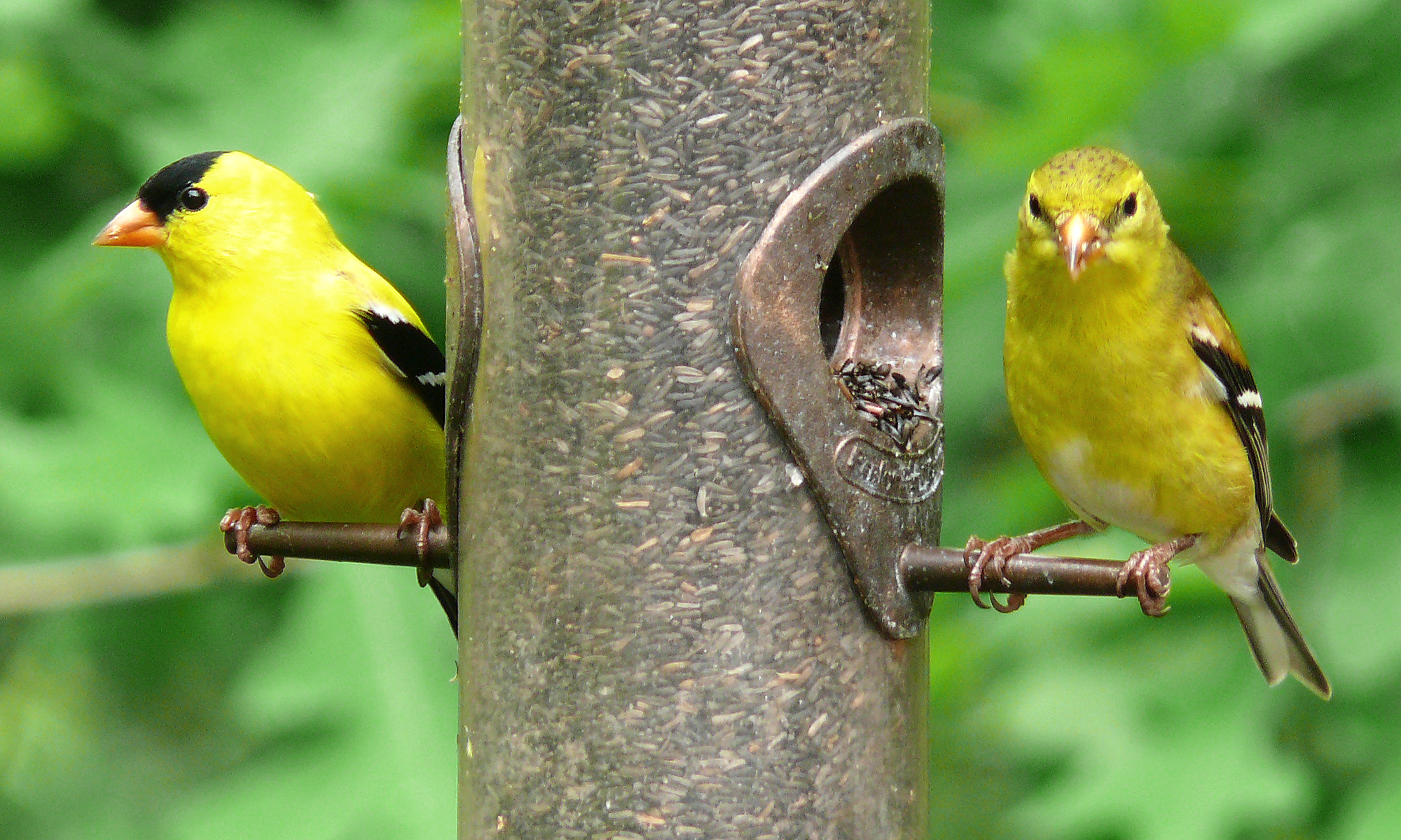 Male (left) and female (right) American Goldfinches (Carduelis tristis) at a thistle feeder. Photo taken with a Panasonic Lumix DMC-FZ50 in Johnston County, North Carolina, USA.